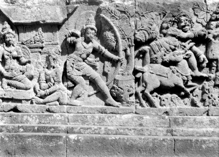 Relief at the temple dedicated to Shiva at the Candi Lara Jonggrang or Prambanan temple complex